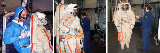 Astronaut Clayton Anderson enters an Orlan space suit while training in Russia